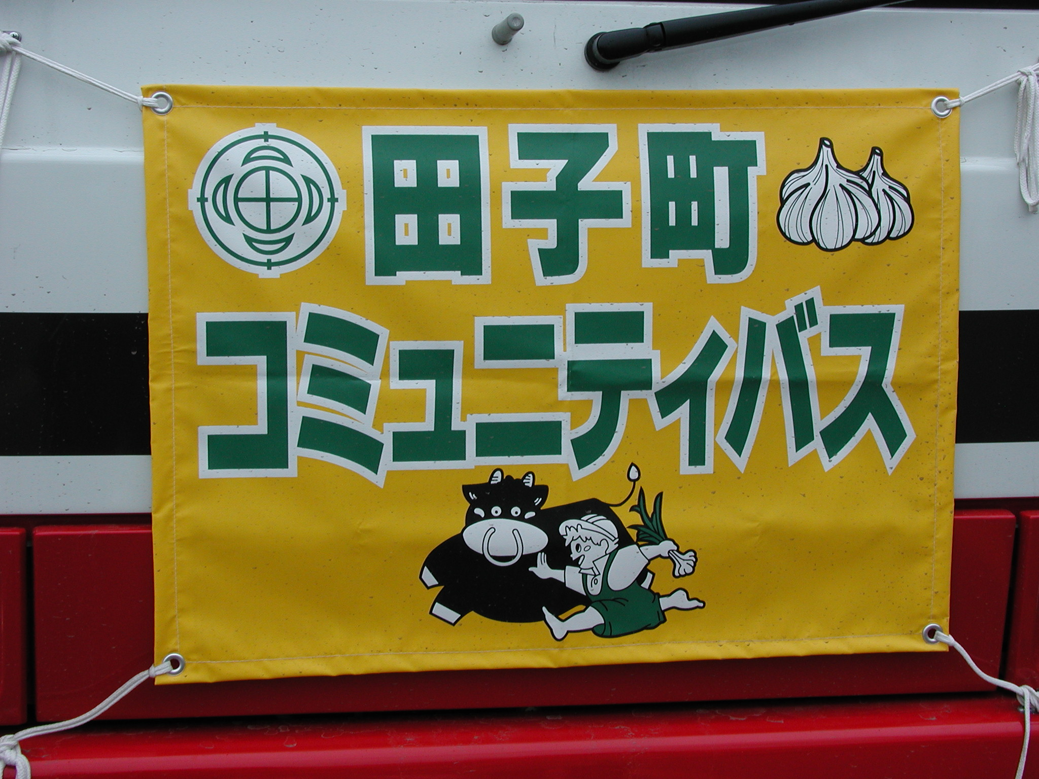 Banner placed in front of Takko Town Community Bus fleet